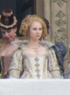 Juno Temple filming a scene in the 2011 version of The Three Musketeers.